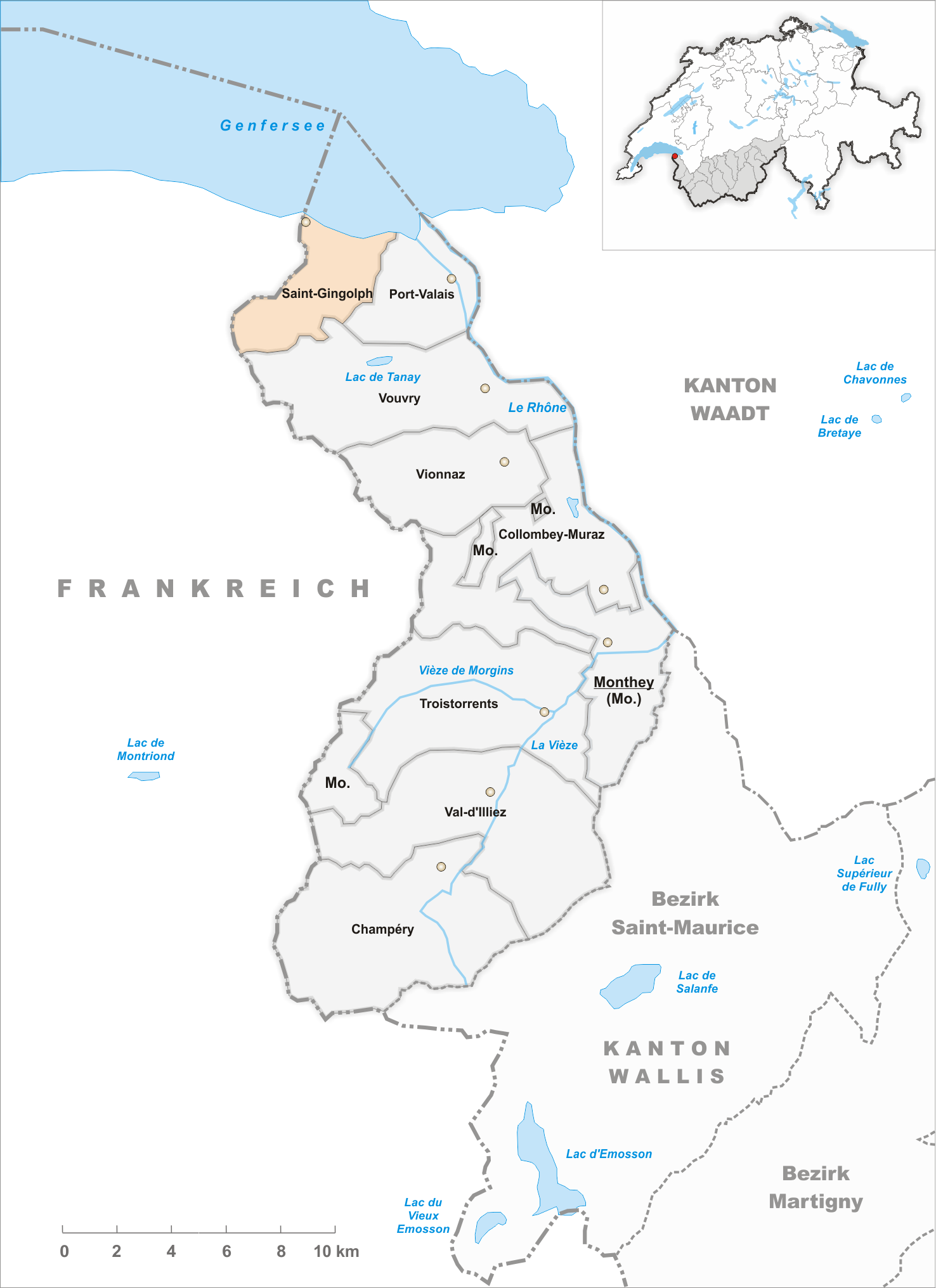 Municipality Saint-Gingolph